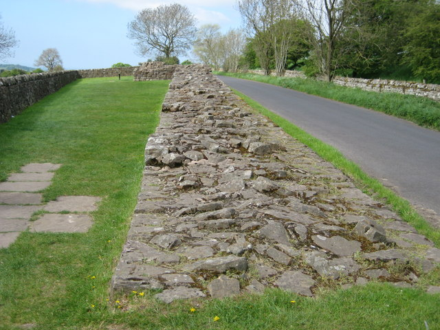 Banks East Turret